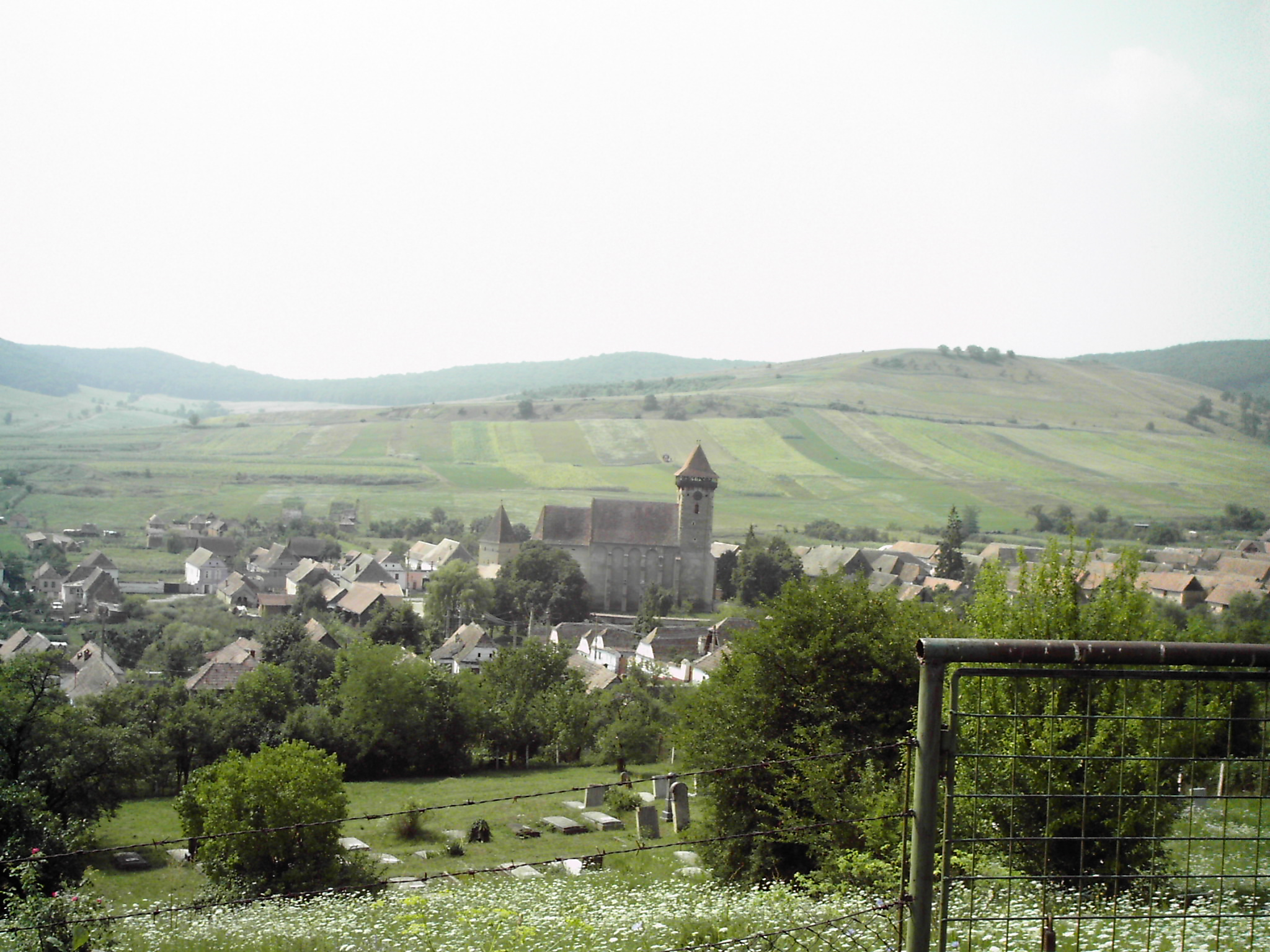 The village of Bagaciu and its fortified church. Massive stone bell-tower with gun emplacements; brick gate tower visible to the left of the church.